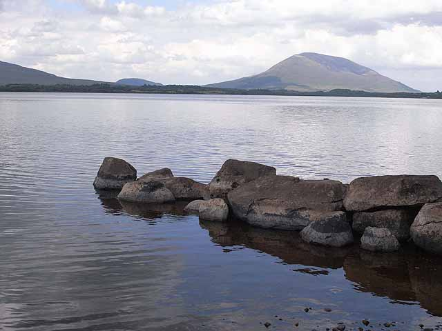 Beltra Lough The imposing peak at the head of the lough is Nephin G1007. The lesser hill to the left is Tristia G0709.